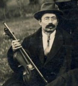 Lithuanian sculptor Vincentas Jakševičius. Photo taken 1926-1928.